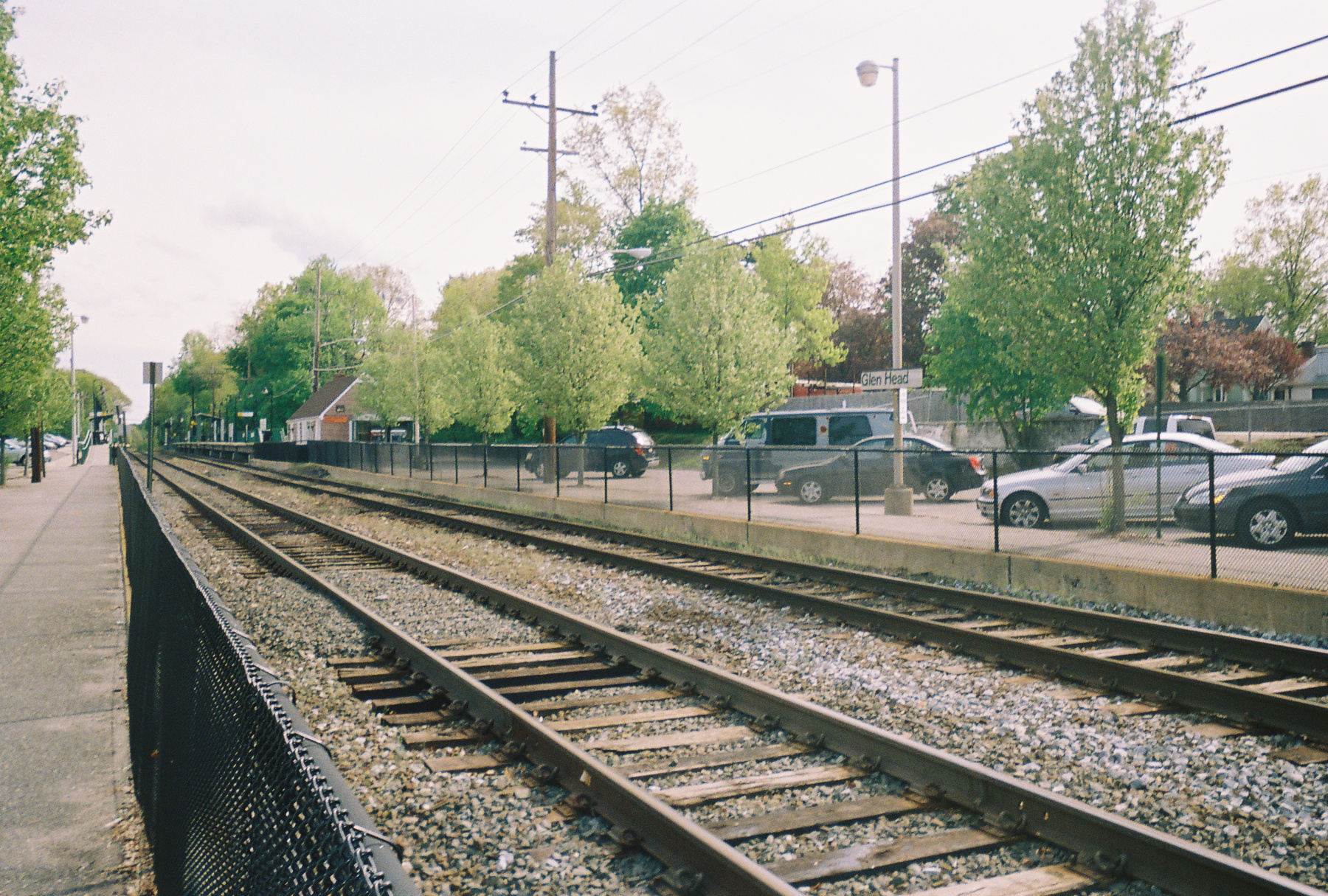 Distant southbound view of the 1961-built Glen Head (LIRR station) house taken from the grade crossing at Glen Head Road in Glen Head, New York.